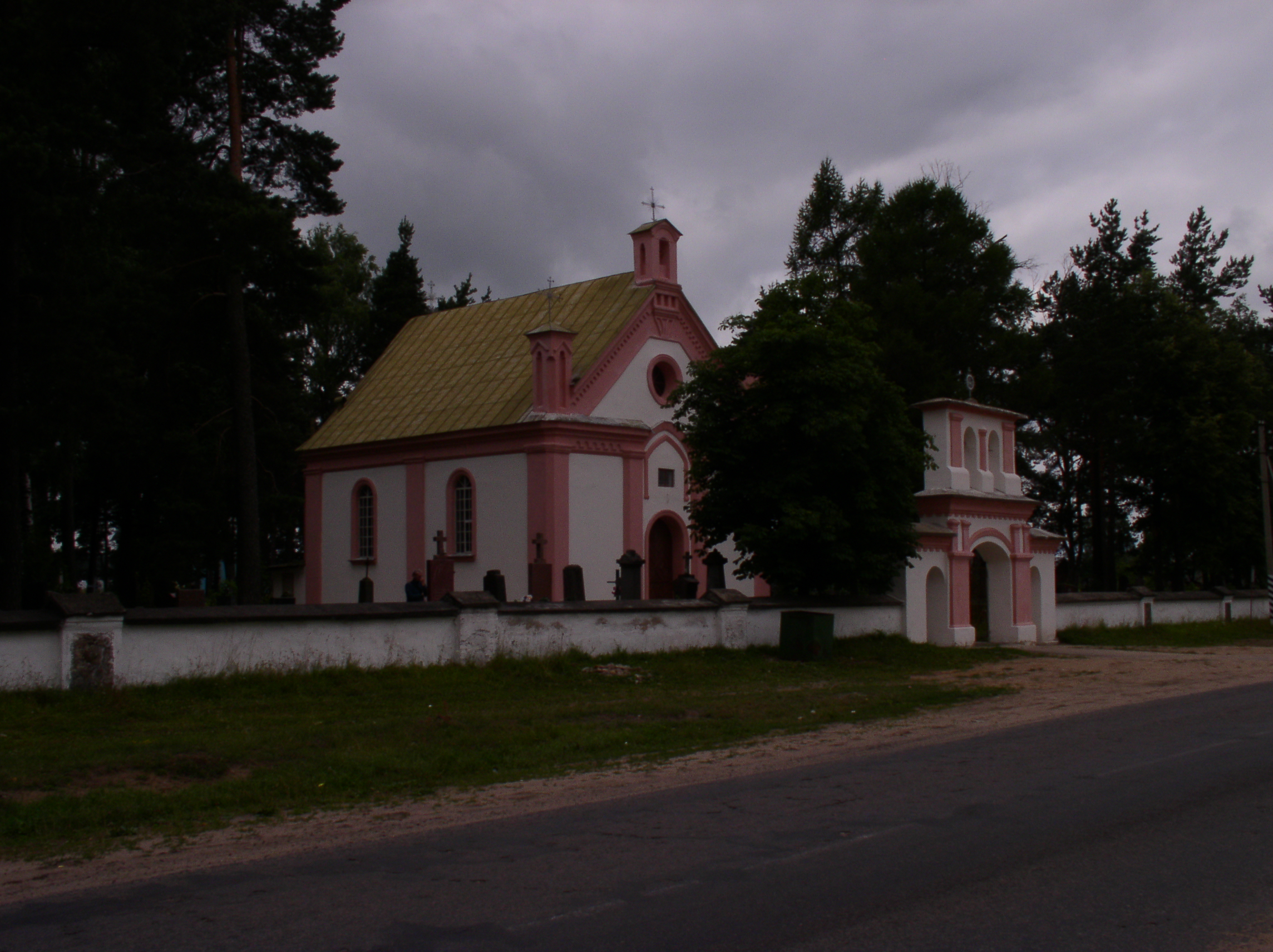 Church of Saint Anne and catholic cemetery, Rakaw, Belarus.